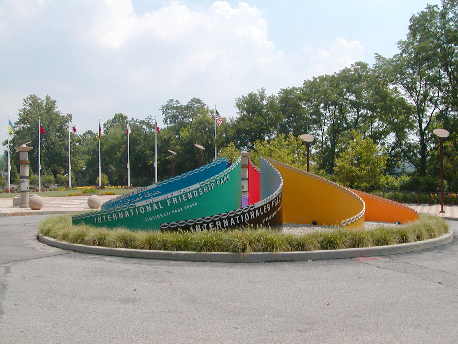 Ted Berry Park in Cincinnati, OH. Photo by Greg Hume